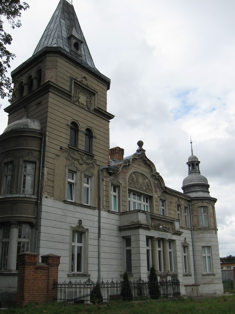 Palace in Sucumin